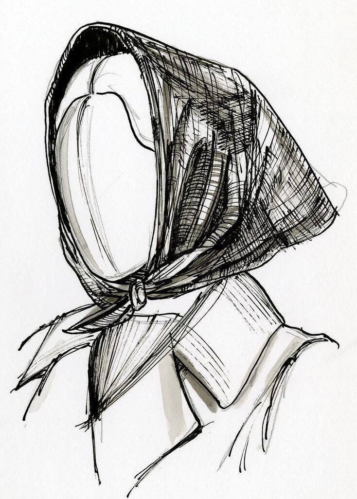 The description of the concept in this drawing is: Headcloths worn instead of hats for warmth or concealment of the head or face, either where the length of the scarf exceeds the width, or a square scarf that is folded in a triangle and tied under the chin. (AAT)